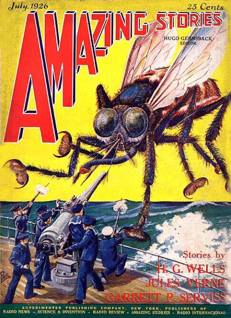 Cover of the pulp magazine Amazing Stories (July 1926, vol. 1, no. 4).